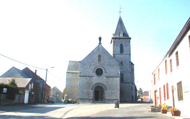 church of Romedenne Walon: eglijhe di Rômedene (portrait saetchî pa L. Mahin).